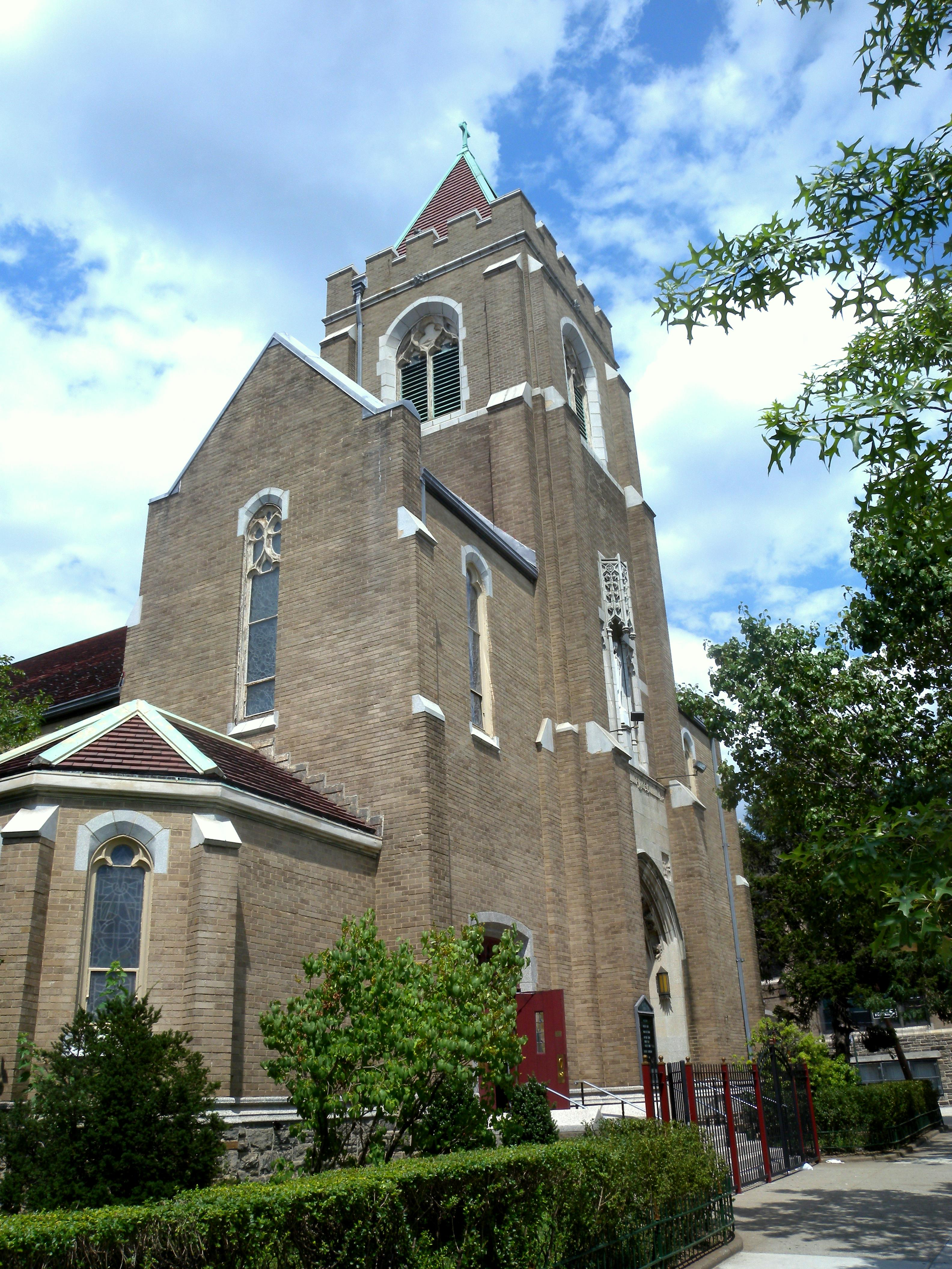 Our Lady of Solace RC Church on Morris Park Avenue in Van Nest, Bronx on a mostly sunny early afternoon.